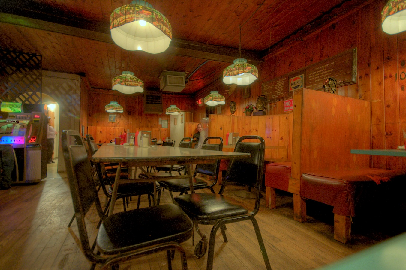 Owl Cafe in San Antonio, NM, where we ate lunch. Stealth HDR shot by laying camera on the table. Not sure what I was getting.